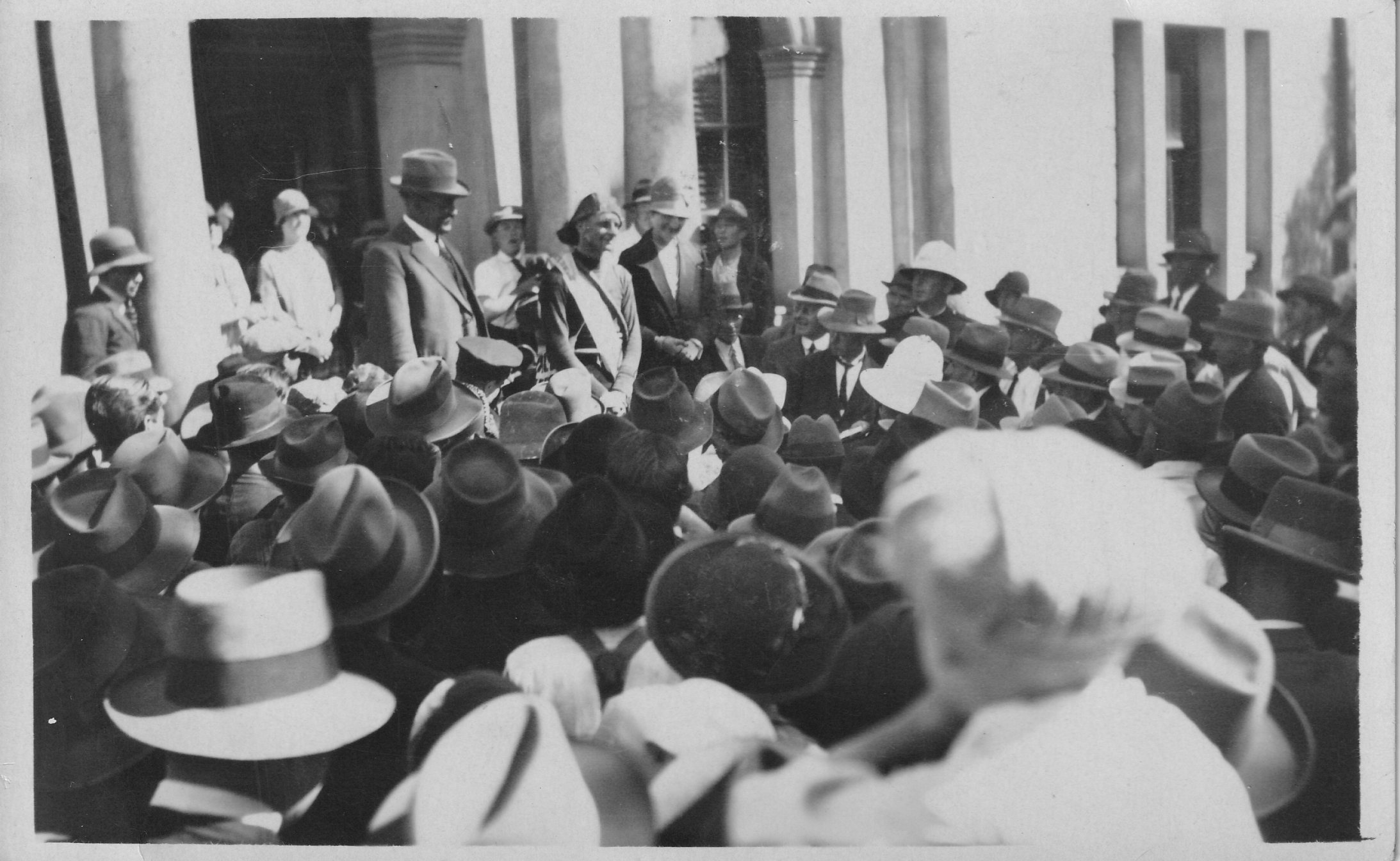 Cr George Handley, Mayor of Wangaratta (left) and Hubert Opperman (right) facing gathered crowd in Wangaratta on 15 Nov 1927 after Opperman won the the first stage of Dunlop Grand Prix bicycle race.